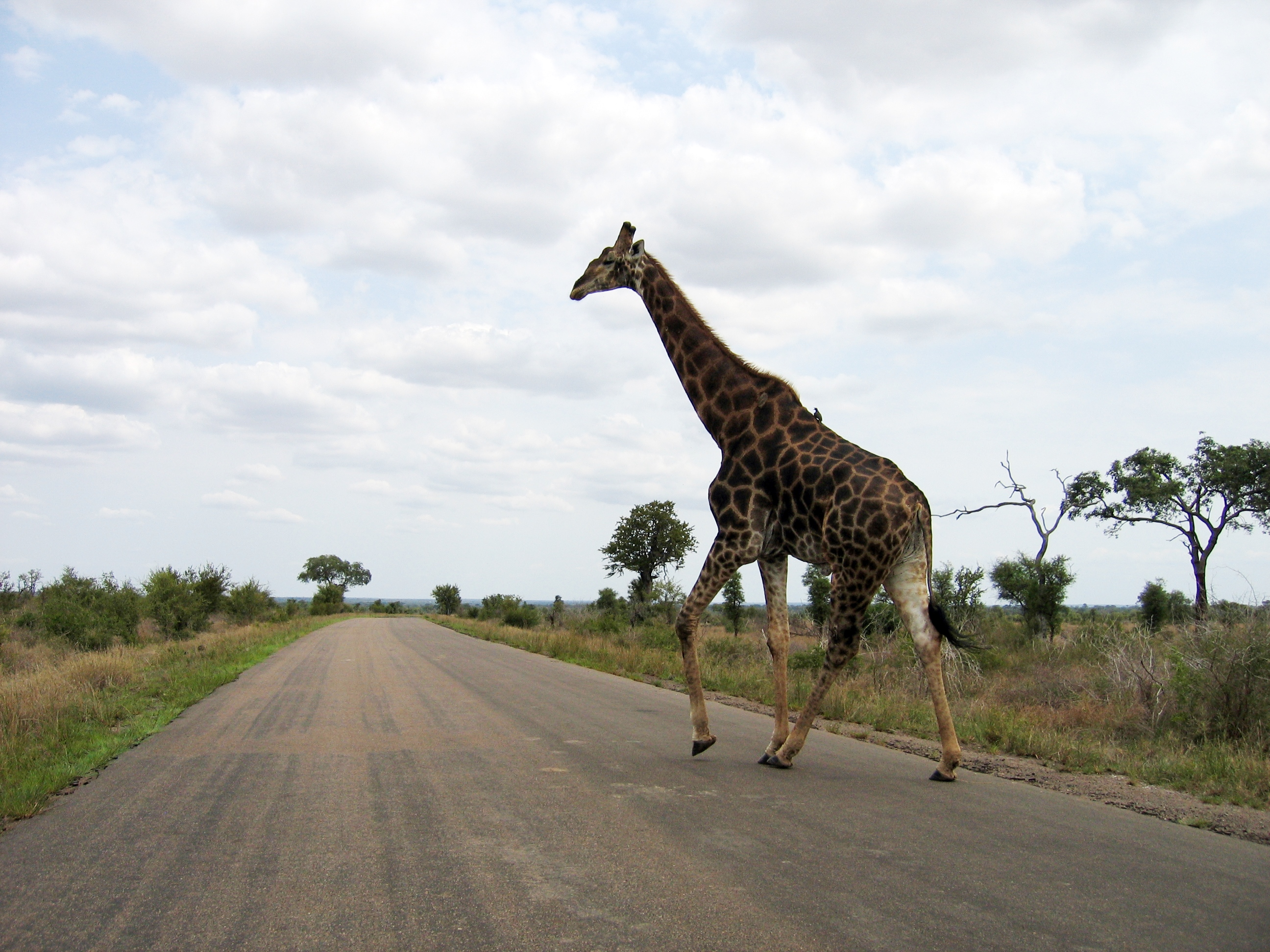 A bird crossing the road in Kruger National Park riding a Giraffe